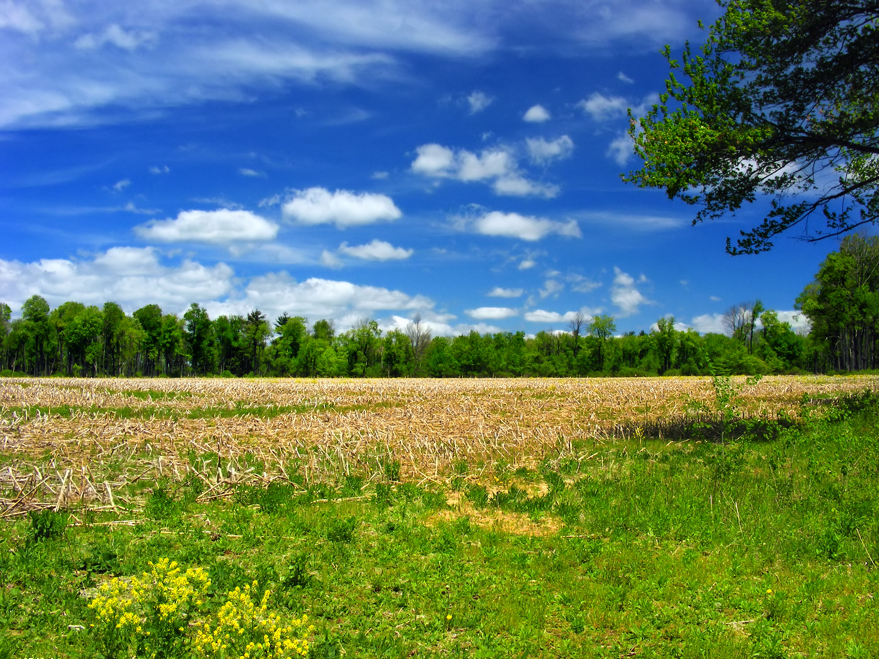 Tunkhannock Township, Monroe County. In this area, pockets of agriculture border the protected lands of the Nature Conservancy and Bethlehem Water Authority. Agriculture is rare on the high, windswept Pocono Plateau; the soil, filled with glacial till, is infertile across most of the region.